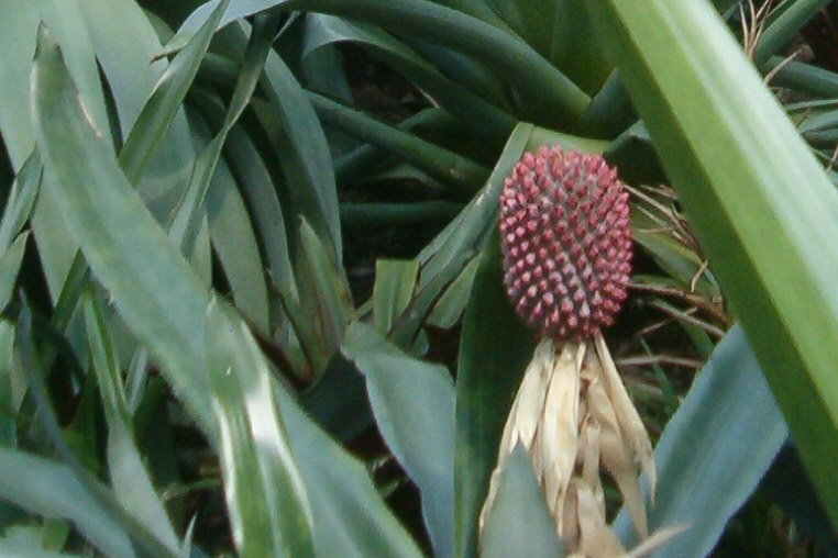 At Botanical Gardens Berlin-Dahlem Species Aechmea mariae-reginae